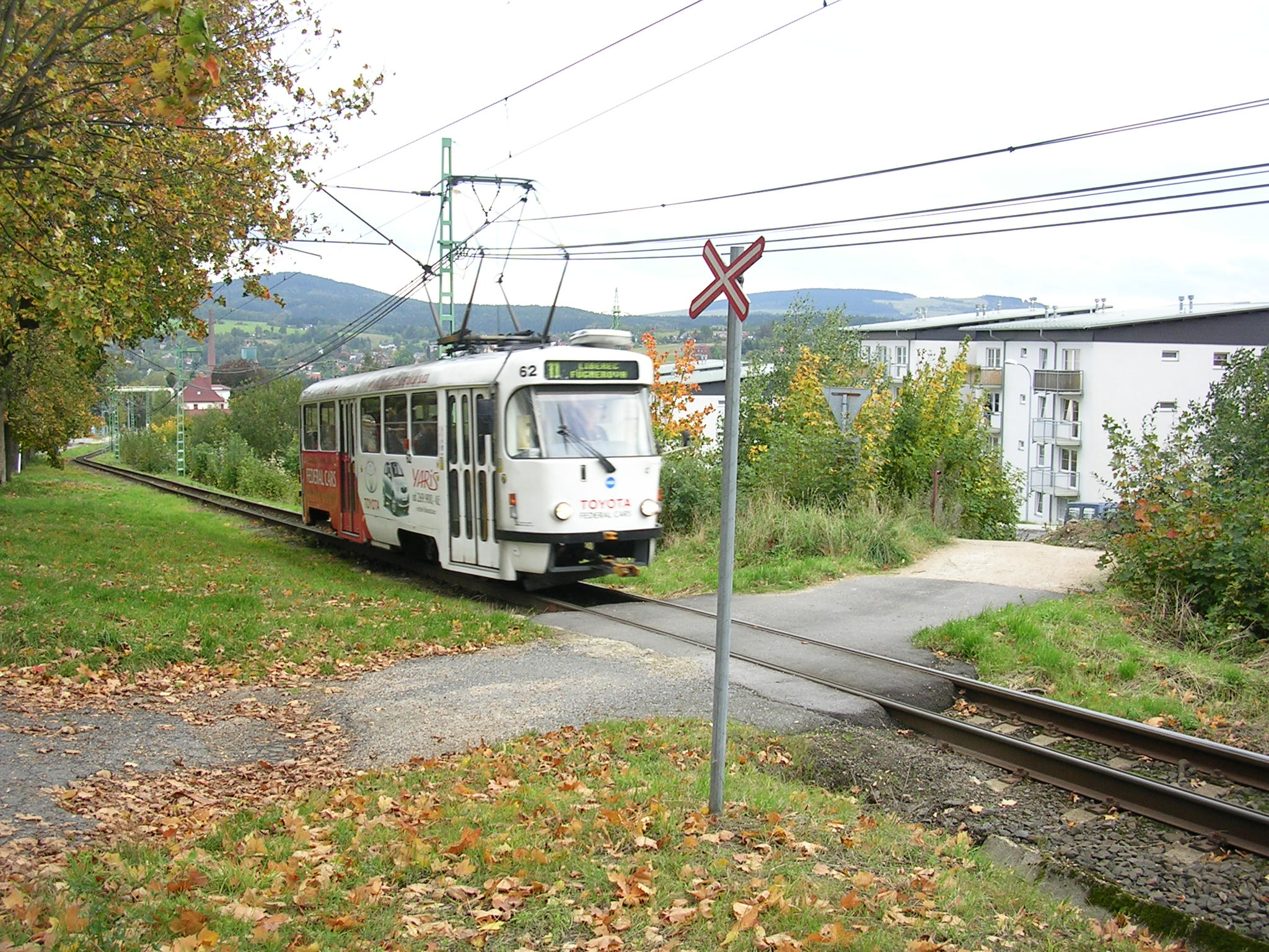 Tramway line between Liberec and Jablonec. Liberec, between tram stops Ústav sociální péče a Pivovar.